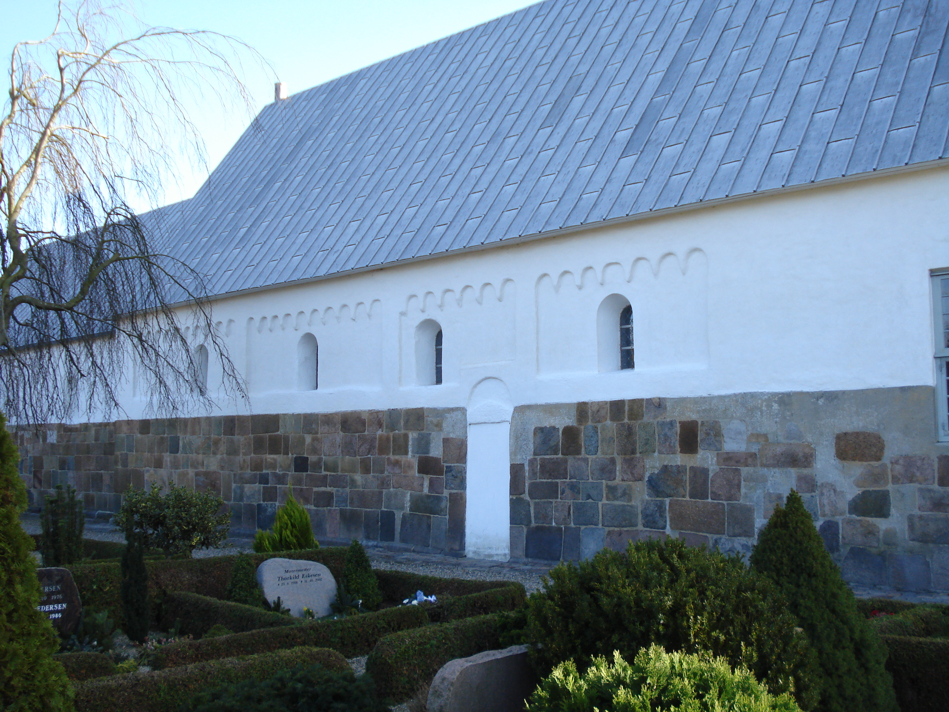 Ål Church, Jutland, Denmark